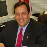 US_Attorney_Chris_Christie.jpg cropped as square headshot